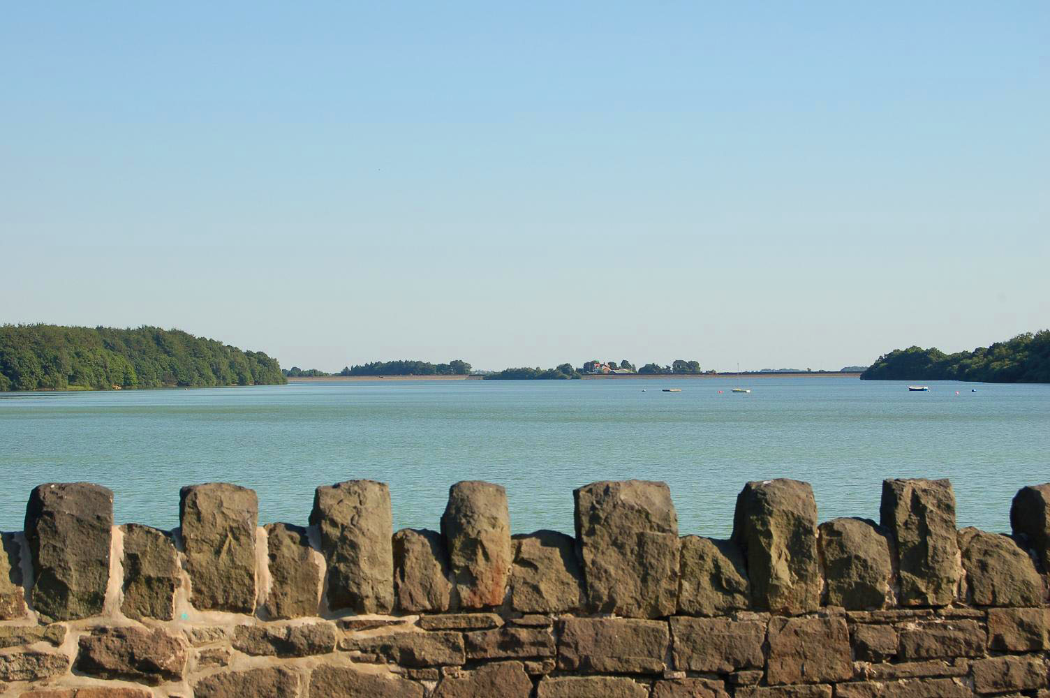 Lower Rivington Reservoir Looking from the Upper Rivington Embankment towards Horwich.